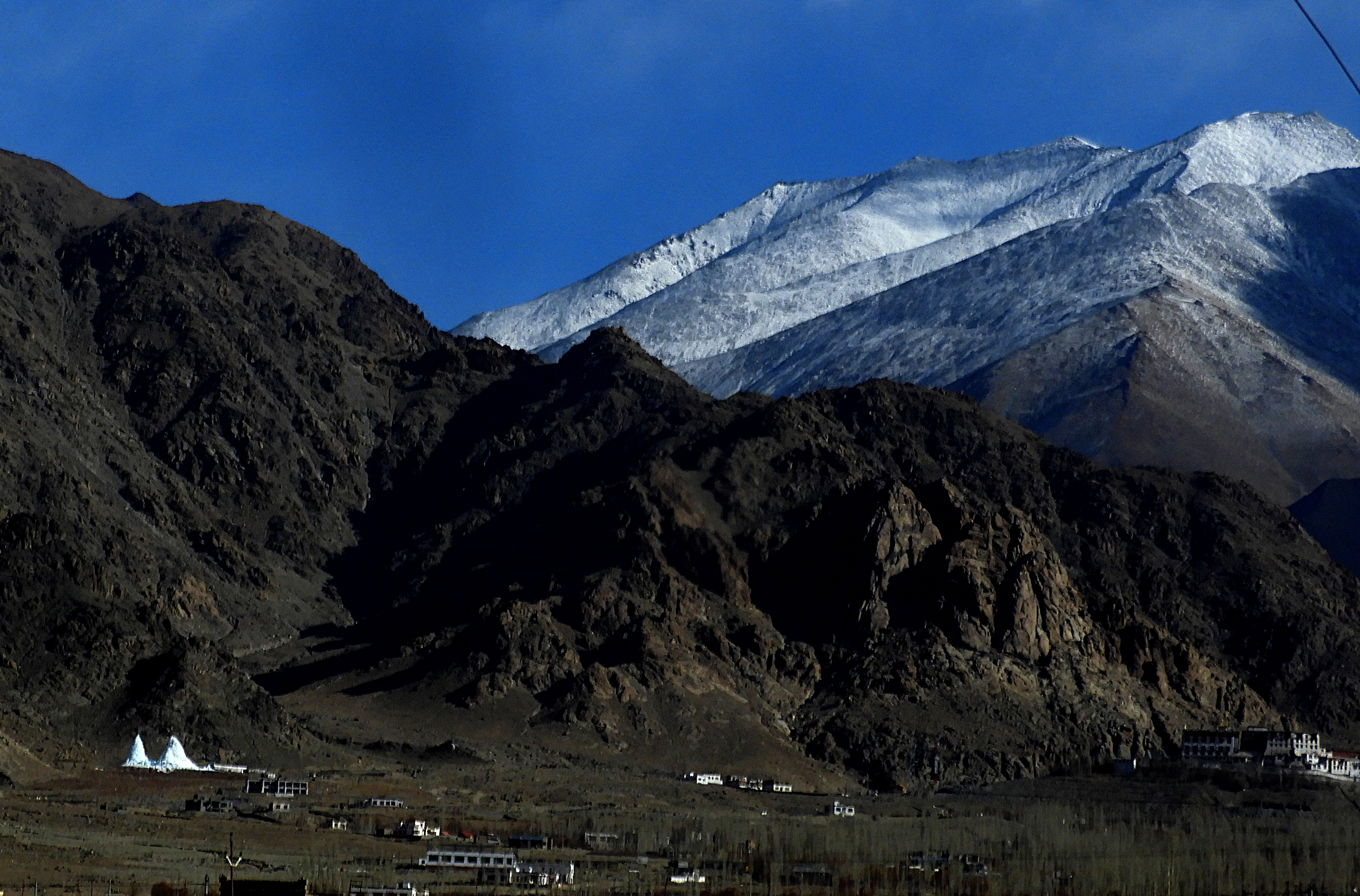 Ice stupas near Phyang monastery